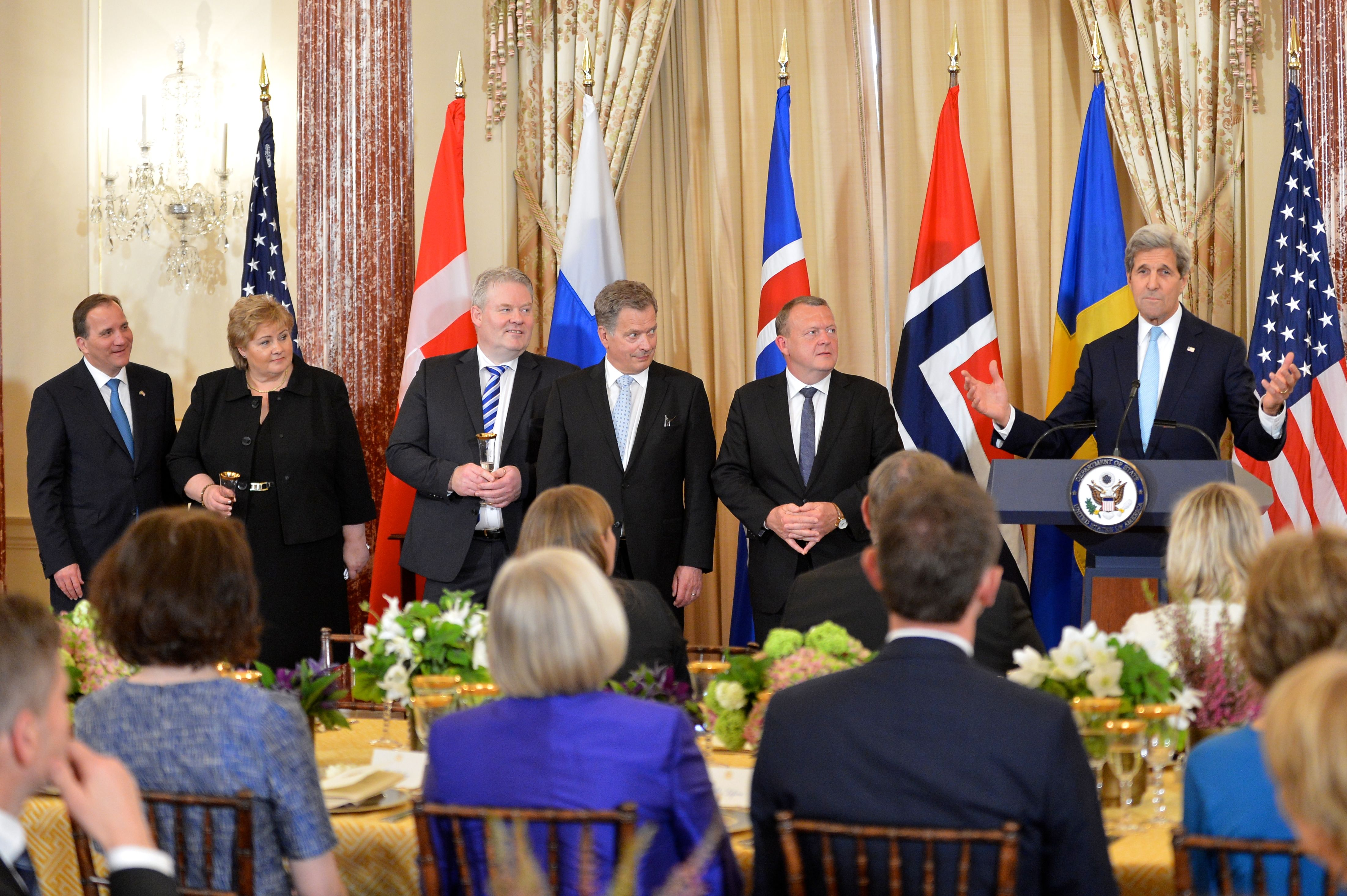 U.S. Secretary of State John Kerry delivers remarks at a working luncheon that he hosted in honor of Nordic leaders: Finnish President Sauli Niinistö, Norwegian Prime Minister Erna Solberg, Swedish Prime Minister Stefan Löfven, Danish Prime Minister Lars Lokke Rasmussen, and Icelandic Prime Minister Sigurdur Ingi Johannsson, at the U.S. Department of State in Washington, D.C., on May 13, 2016. [State Department photo/ Public Domain]